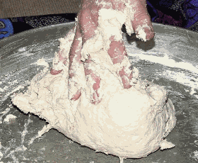 Cirdingis preparation